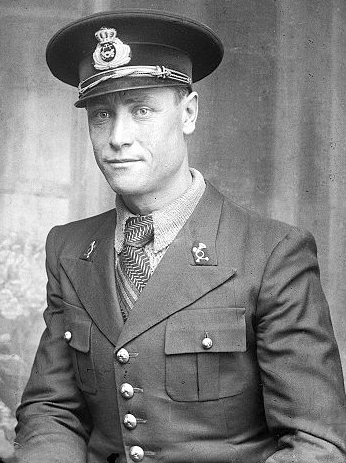 Post Office clerk (mailman) uniform, photo is taken probably somewhere between 1931 and 1941. —